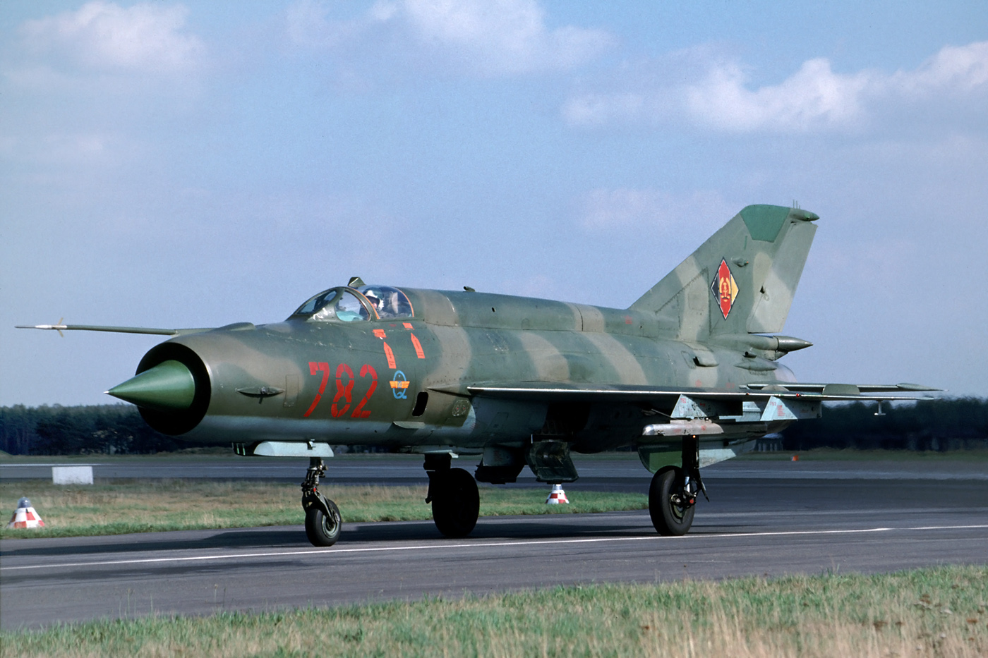 One of the MiG-21's of Jagdfliegergeschwader 3 'Wladimir Komarow' taxiing after landing at Preschen. JG-3 also operated the MiG-29's. 23 August 1990. 782 is preserved in the museum of Bad Oeynhausen.